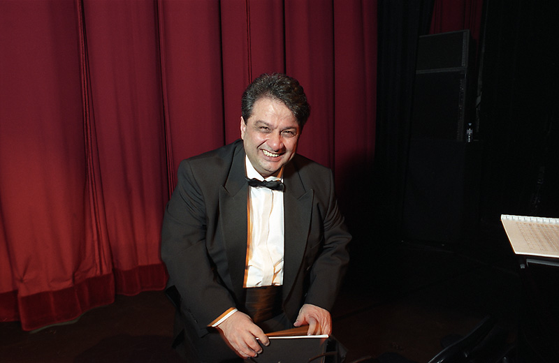 Mohammad Shams in Olympia, Paris